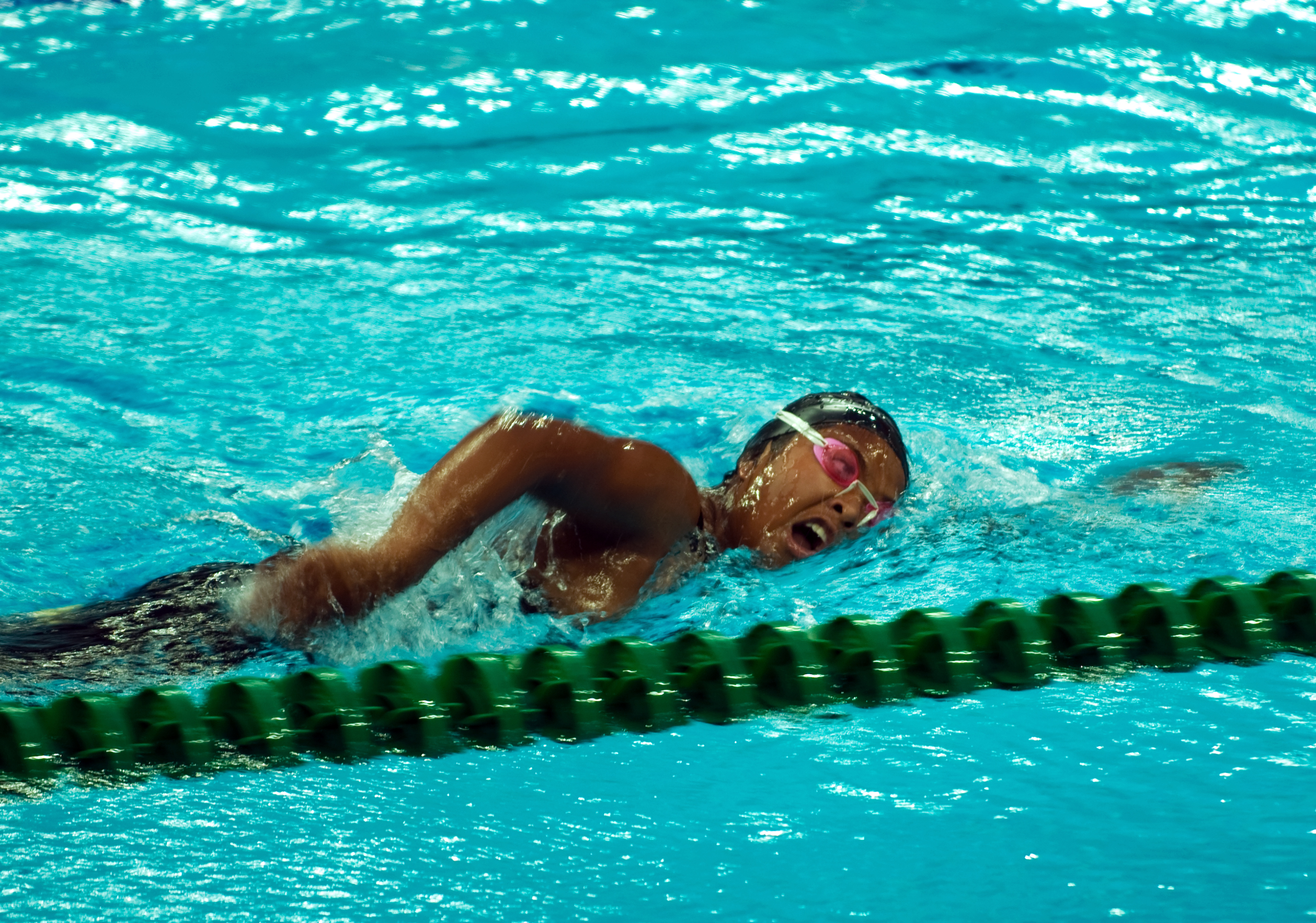 Crawl stroke in swimming